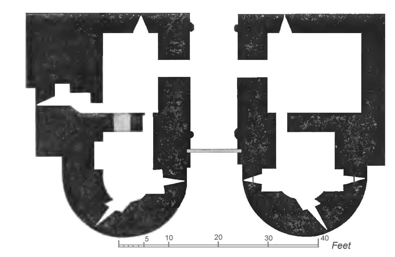 Plan of Rockingham Castle Barbican